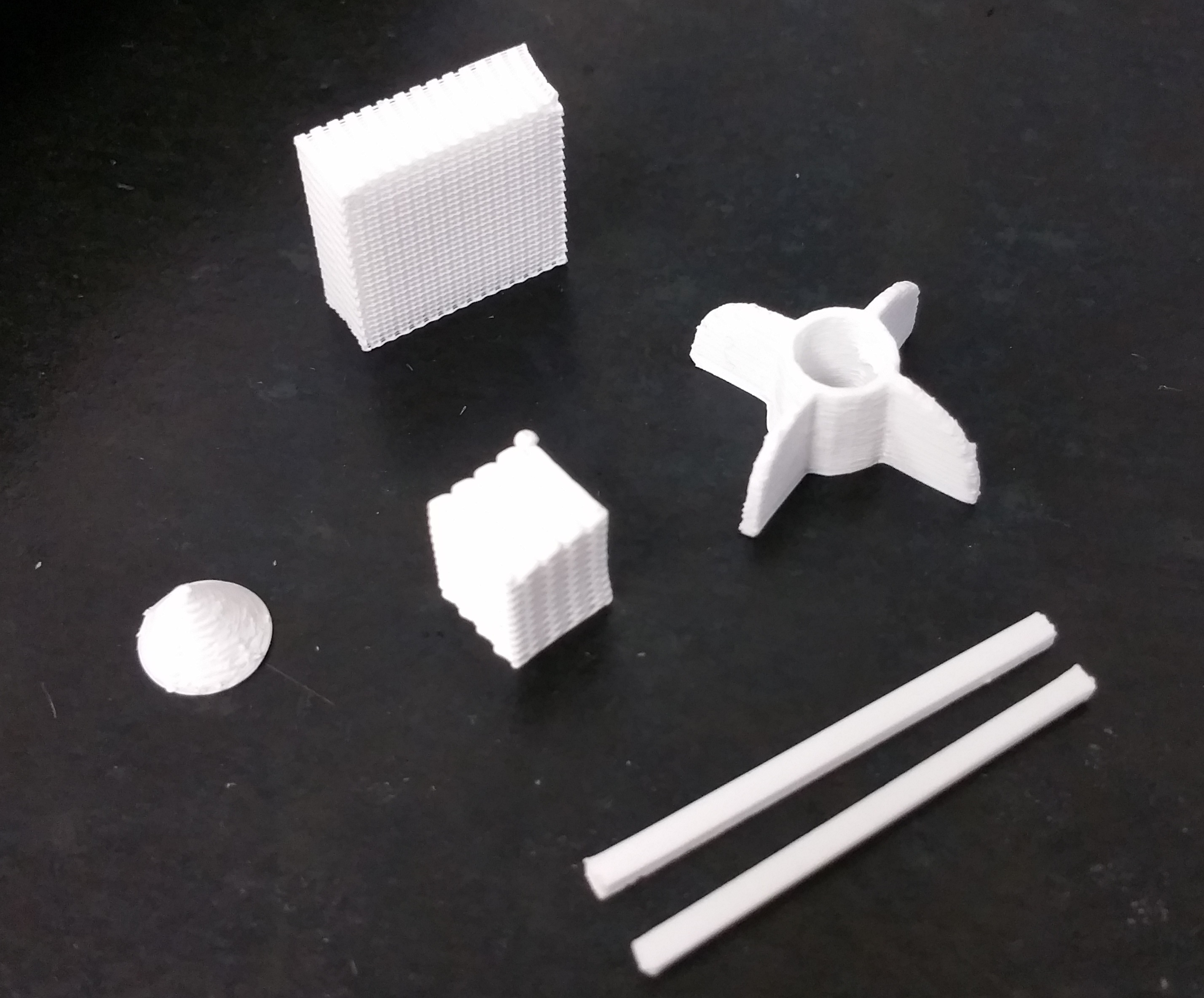 A selection of alumina parts produced using robocasting.